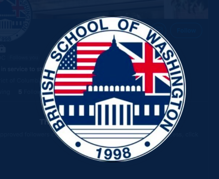 Original British School Logo. Note: Post-Brexit removal of anachronistic imaging (i.e., that which contains the obsolete "I" and now archiac international script).